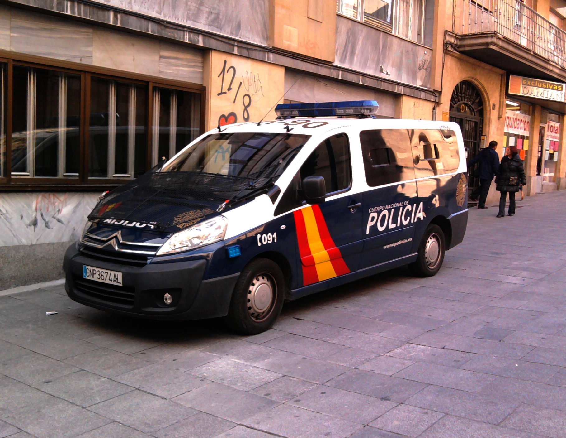 Vehicle from the "Cuerpo Nacional de Policía", Salamanca